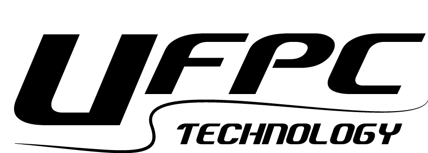 Logo UFPC